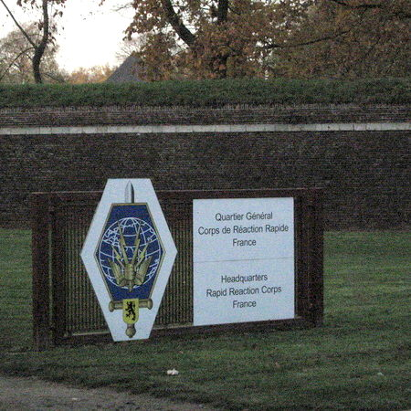 Corps de réaction rapide France, Citadelle, Lille. (Note to self: 2009/11/13FR-59/IMG_1423.JPG)